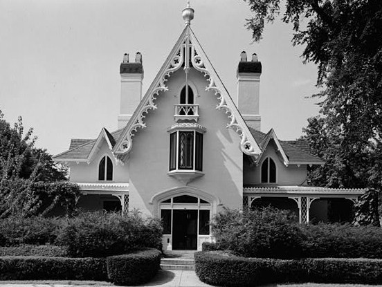 William J. Rotch House, 19 Irving Street (moved from 103 Orchard Street), New Bedford (Bristol County, Massachusetts) (cropped)